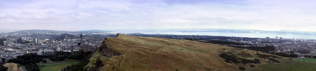 Panoramic view of Edinburgh from the top of Arthur's Seat, made some enhancements.